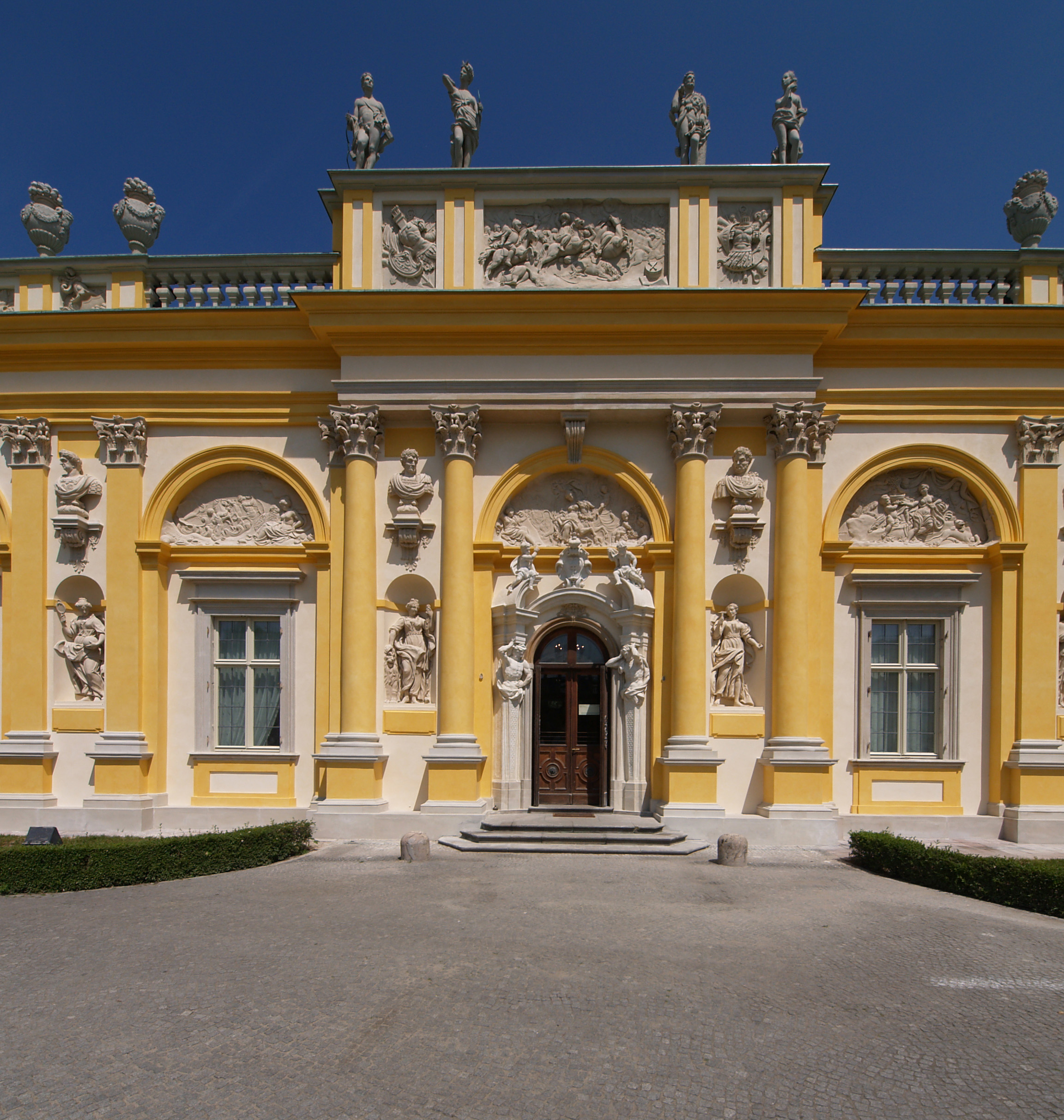 Detail of the north wing of Wilanow Palace at Warsaw, Poland